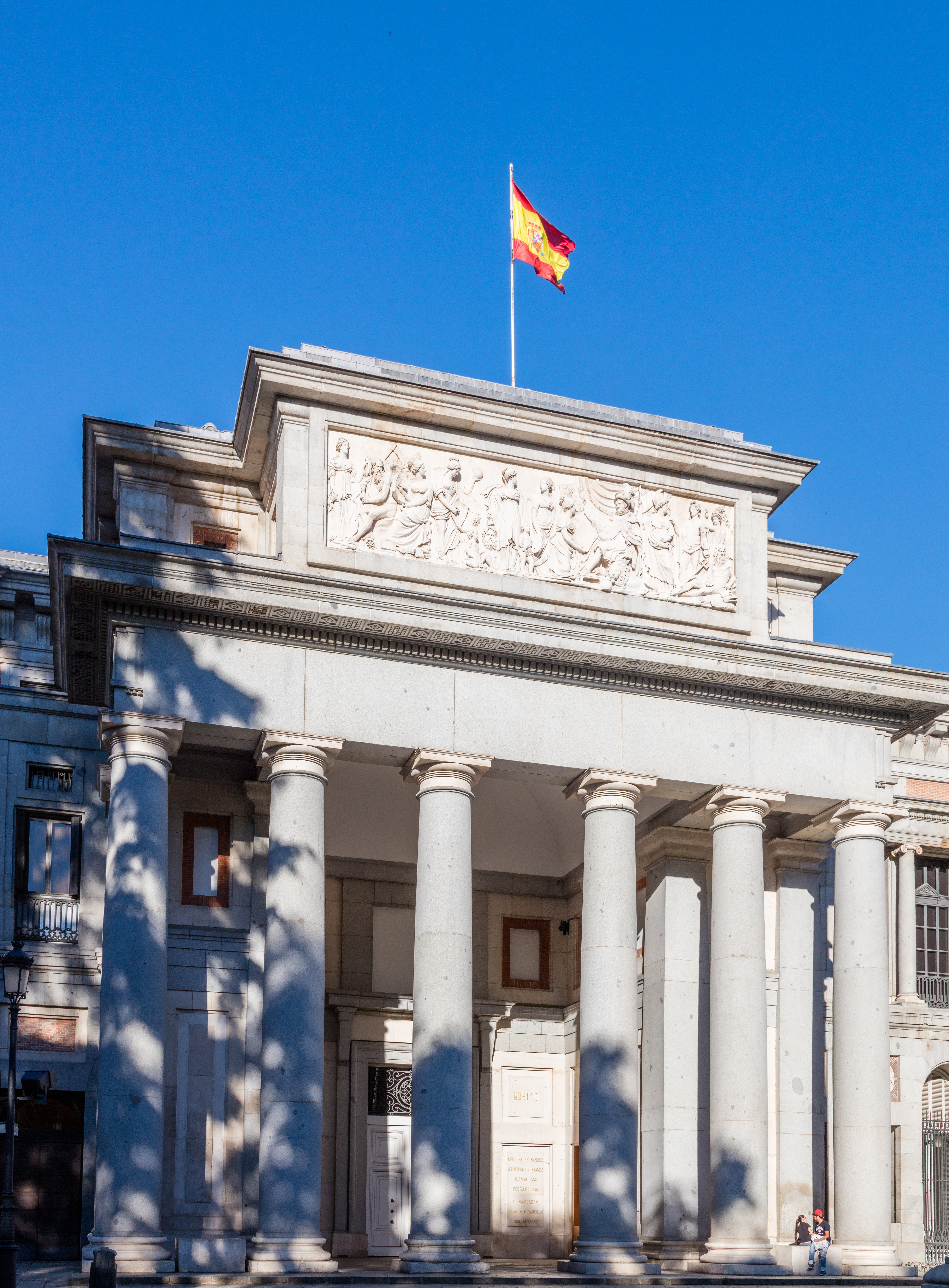 Velázquez Gate, Museo del Prado, Madrid, Spain